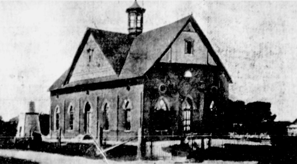 This is a photograph of the Maricopa Stake Tabernacle of The Church of Jesus Christ of Latter-day Saints published in the Deseret News newspaper, alongside a short article about the Mormons in Mesa, Arizona. This building was constructed in 1895-96 and razed in 1967. It was located at the corner of 1st Avenue and Morris St., Mesa, Arizona.